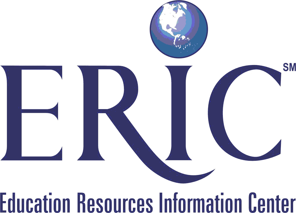 Logo of the Education Resources Information Center, a program of the United States Department of Education.